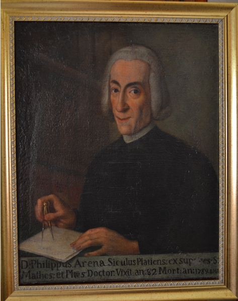 This is a portrait of Filippo Arena (Piazza, 1708, Palermo 1789), Jesuit and scientist (Physicist, mathematician, botanist)